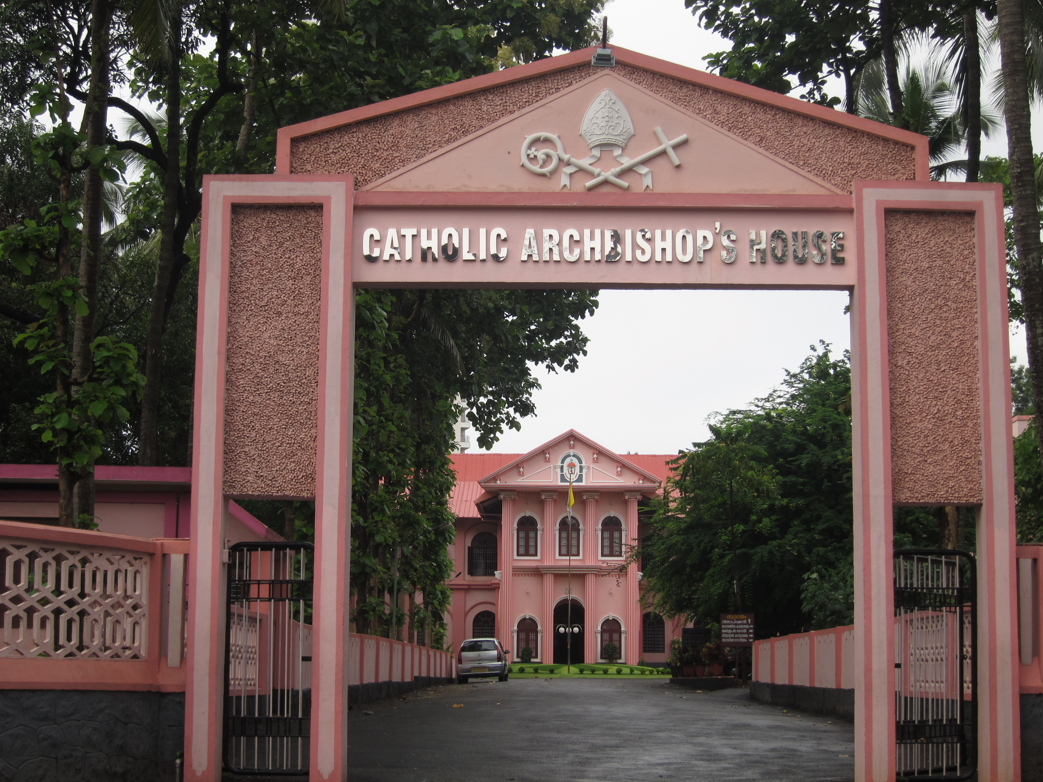 Thrissur Archbishop's House, Archdiocese Office, Thrissur Distruct തൃശ്ശൂർ അതിരൂപത ആസ്ഥാനം, തൃശ്ശൂർ ജില്ല